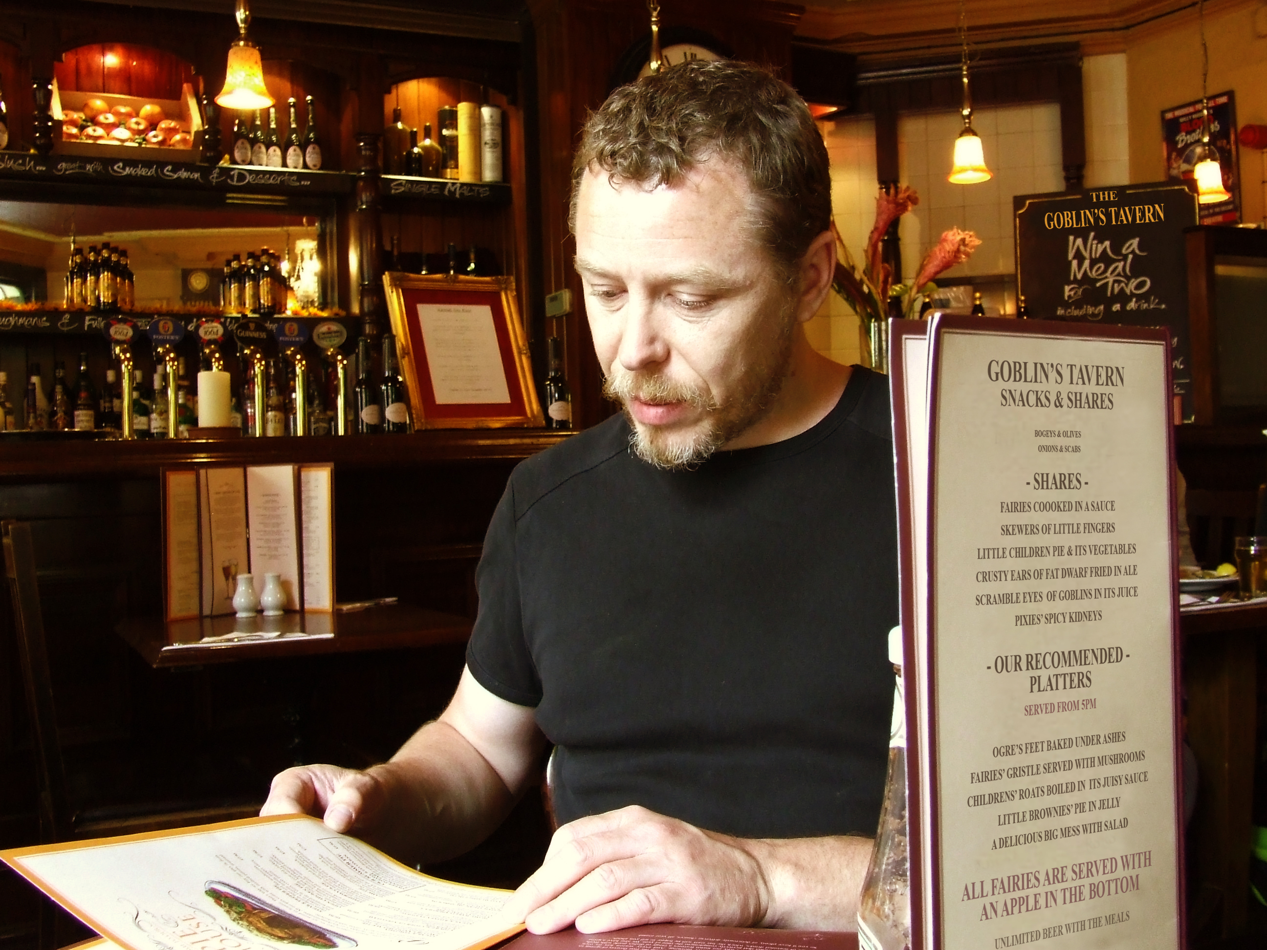 Jean Baptiste Monge at the Goblin's Tavern